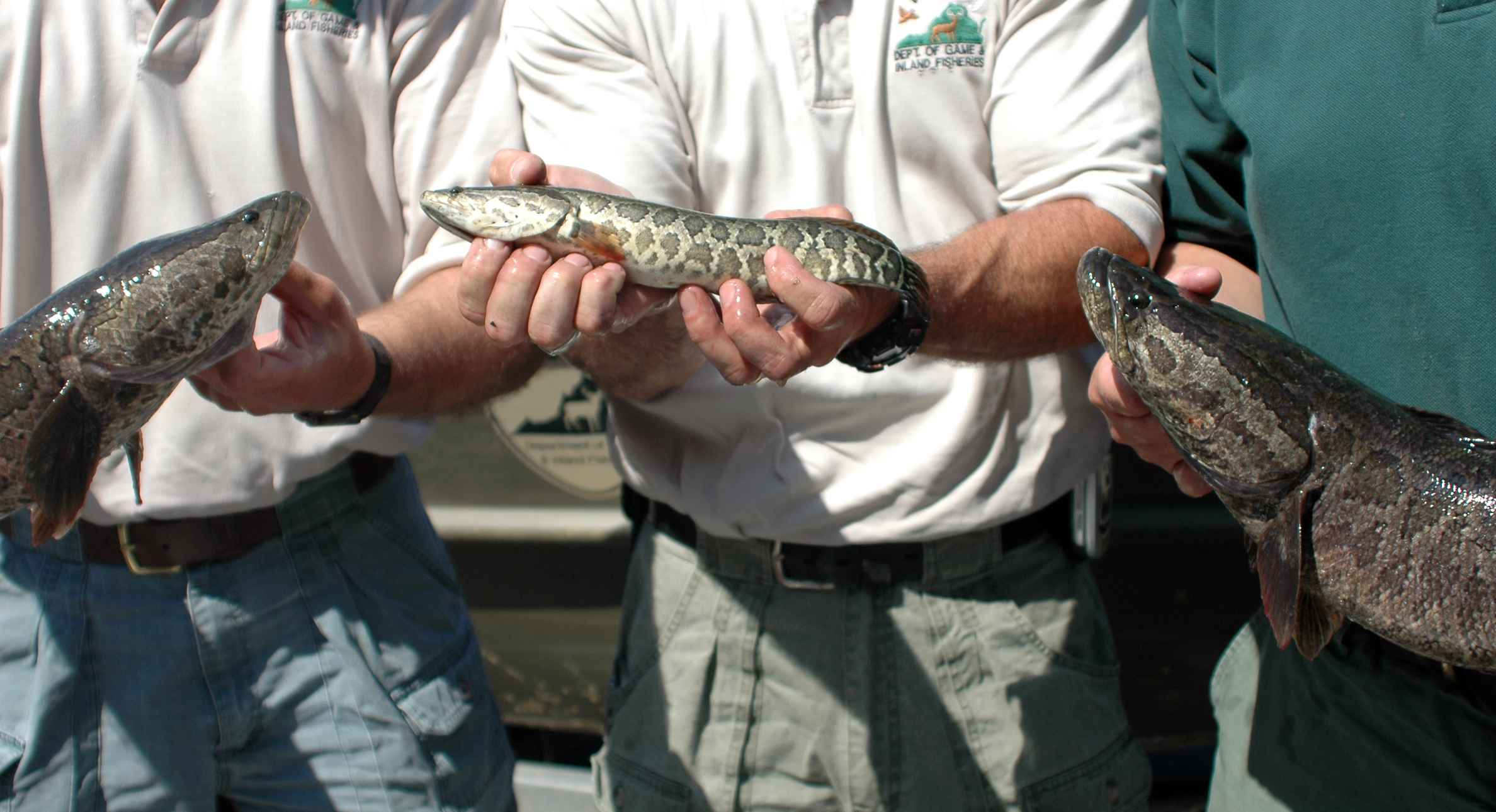 Image title: Northern snakehead fish channa argus Image from Public domain images website